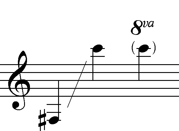 (written) range of a trumpet, self made with Sibelius3 & The Gimp